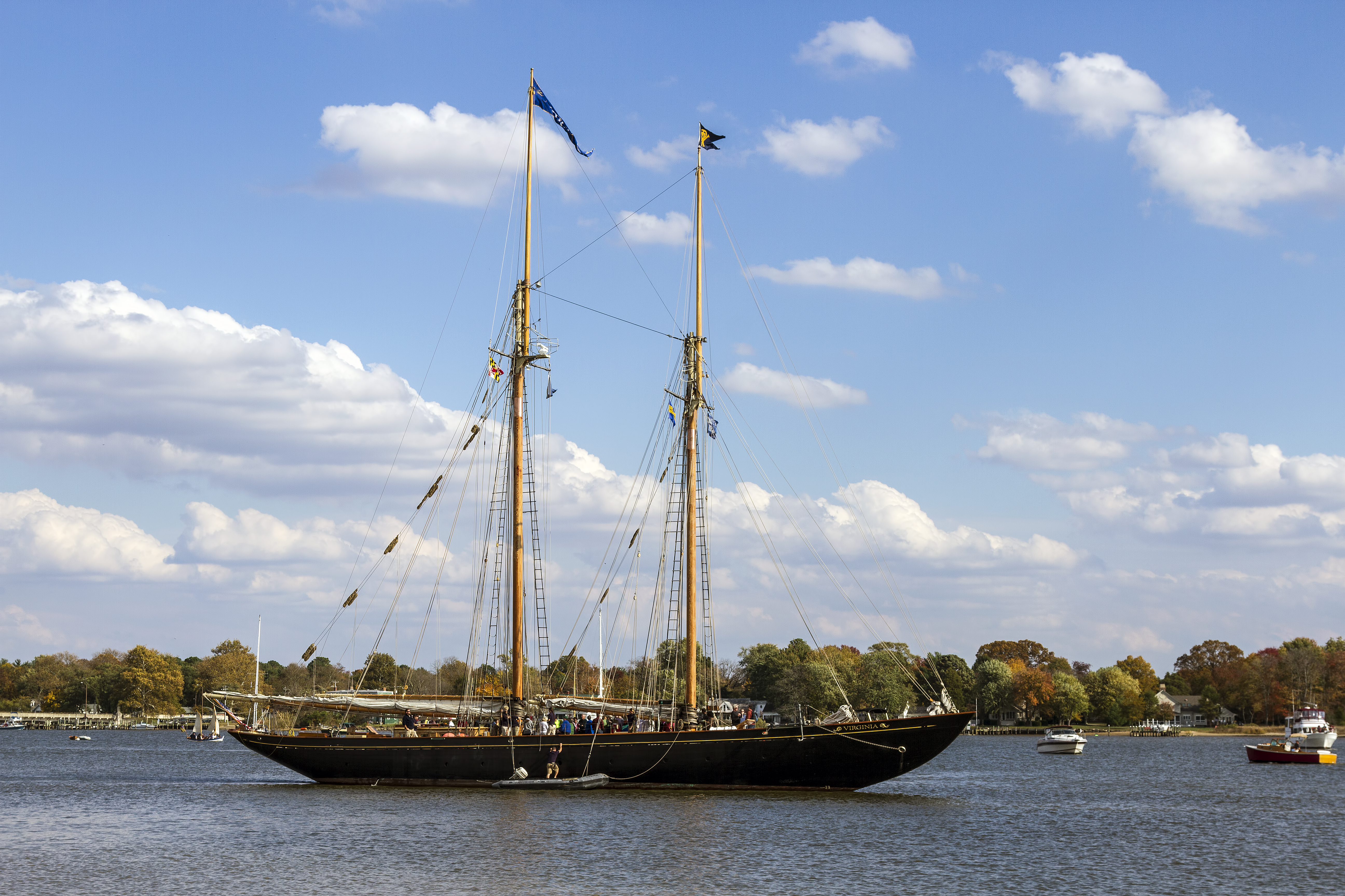 The pilot schooner Virginia on the Chester River, Maryland, USA with a rigid inflatable boat (RIB) alongside